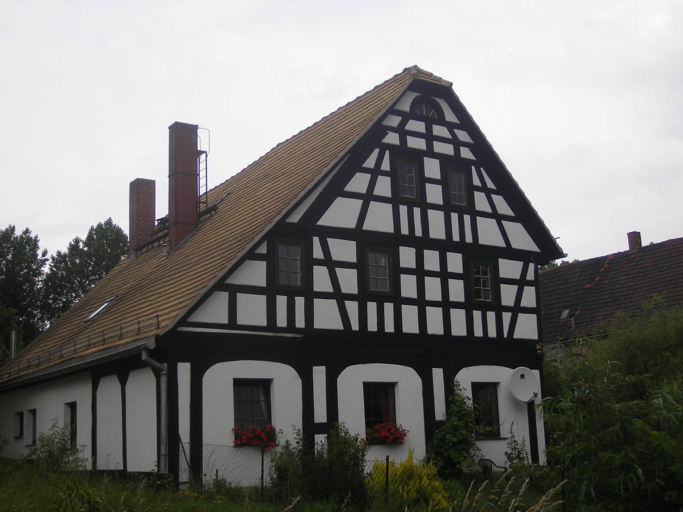 Timber framing house in Drogen-Mohlis near Gera/Thuringia